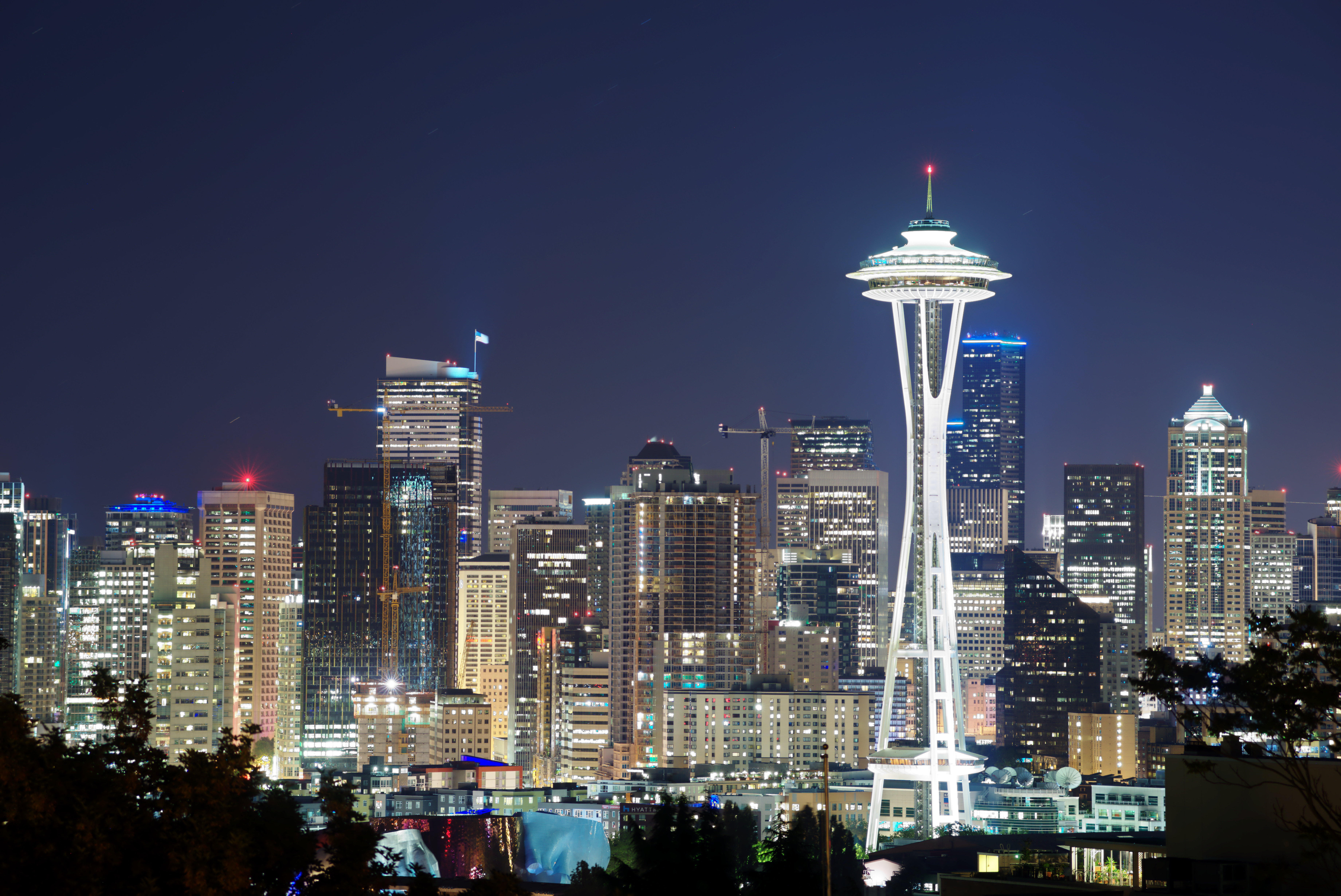 Seattle skyline at night time as seen from Kerry Park in Queen Anne hill. Shot using a Tair 11A at f/8.